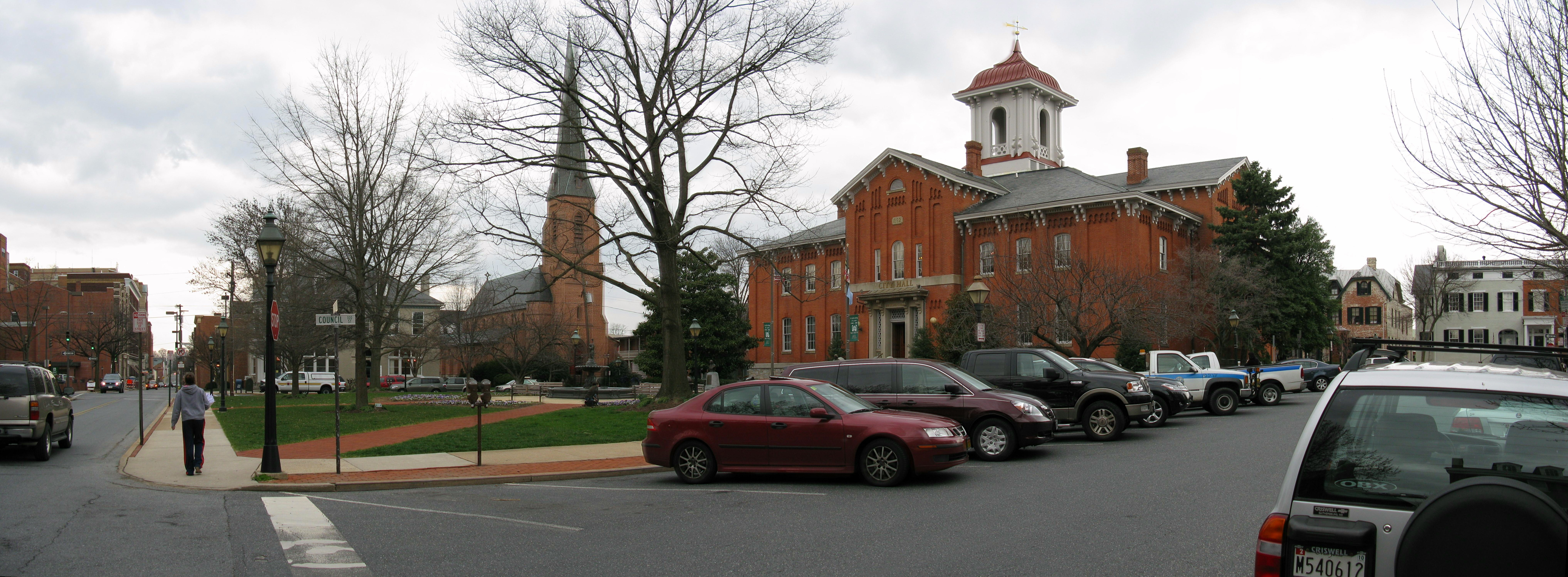 Back-in angle parking along Council Street, beside City Hall in Frederick, MD